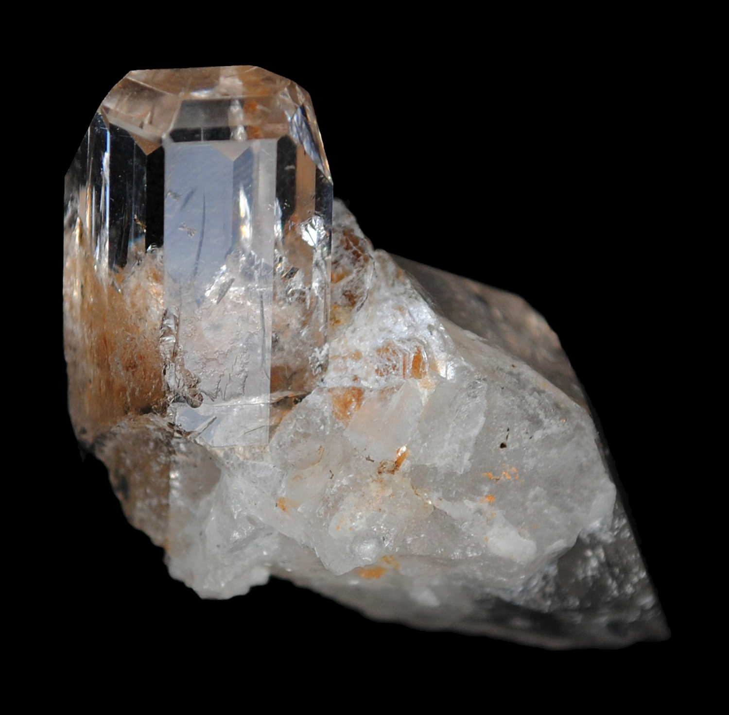 Muscovite, Quartz, Topaz Locality: Dassu (Dasso; Dusso), Shigar Valley, Skardu District, Baltistan, Northern Areas, Pakistan (Locality at ) Size: toenail, 3.4 x 2.9 x 1.8 cm Topaz on Muscovite and Quartz Stunning, GEMMY, 2 cm champagne Topaz, on Quartz and Mica matrix, from the famous mines of Gilgit. To find such a quality crystal on matrix, is quite unusual. It is pristine on display face, slightly contacted only on back. The topaz is a JEWEL! The pics tell the story. Elegant, and a killer.